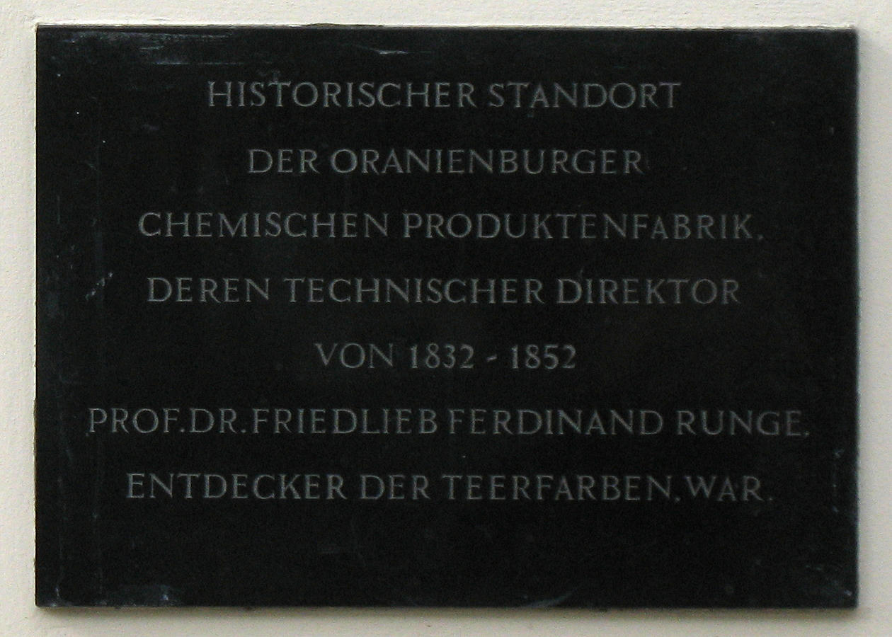 Commemorative plaque for Friedlieb Ferdinand Runge in Oranienburg in Brandenburg, Germany